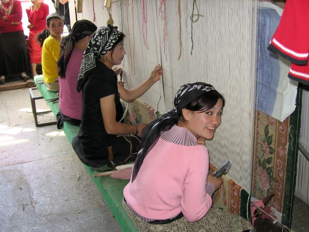 Khotan (Hotan / Hetian) is an oasis city in the Xinjiang Uygur Autonomous Region of the People's Republic of China. Carpet factory.